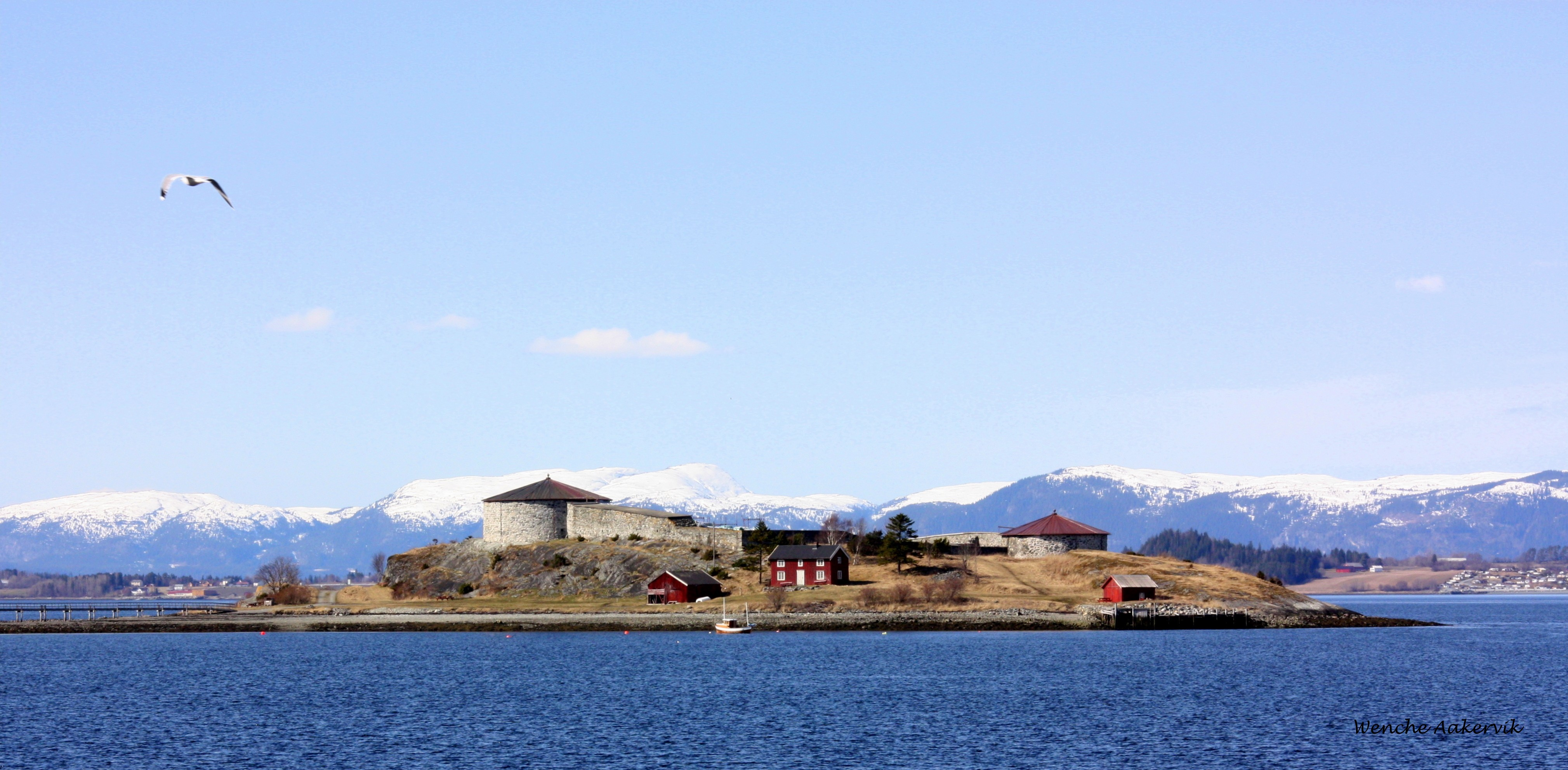 Steinvikholm slott sett fra Steinvik lager 2010